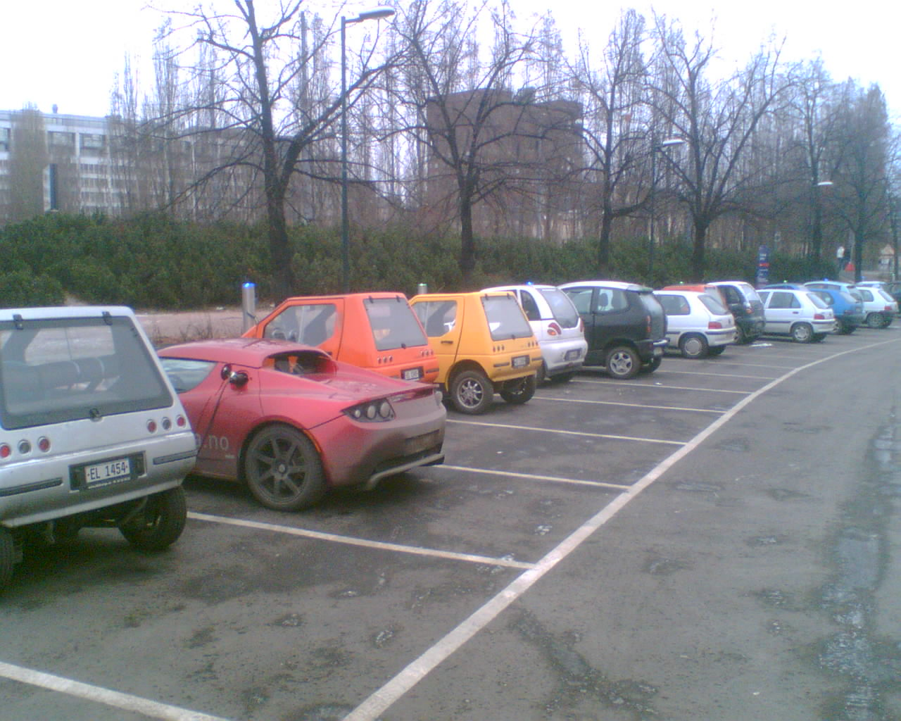 Parking lot for electric cars